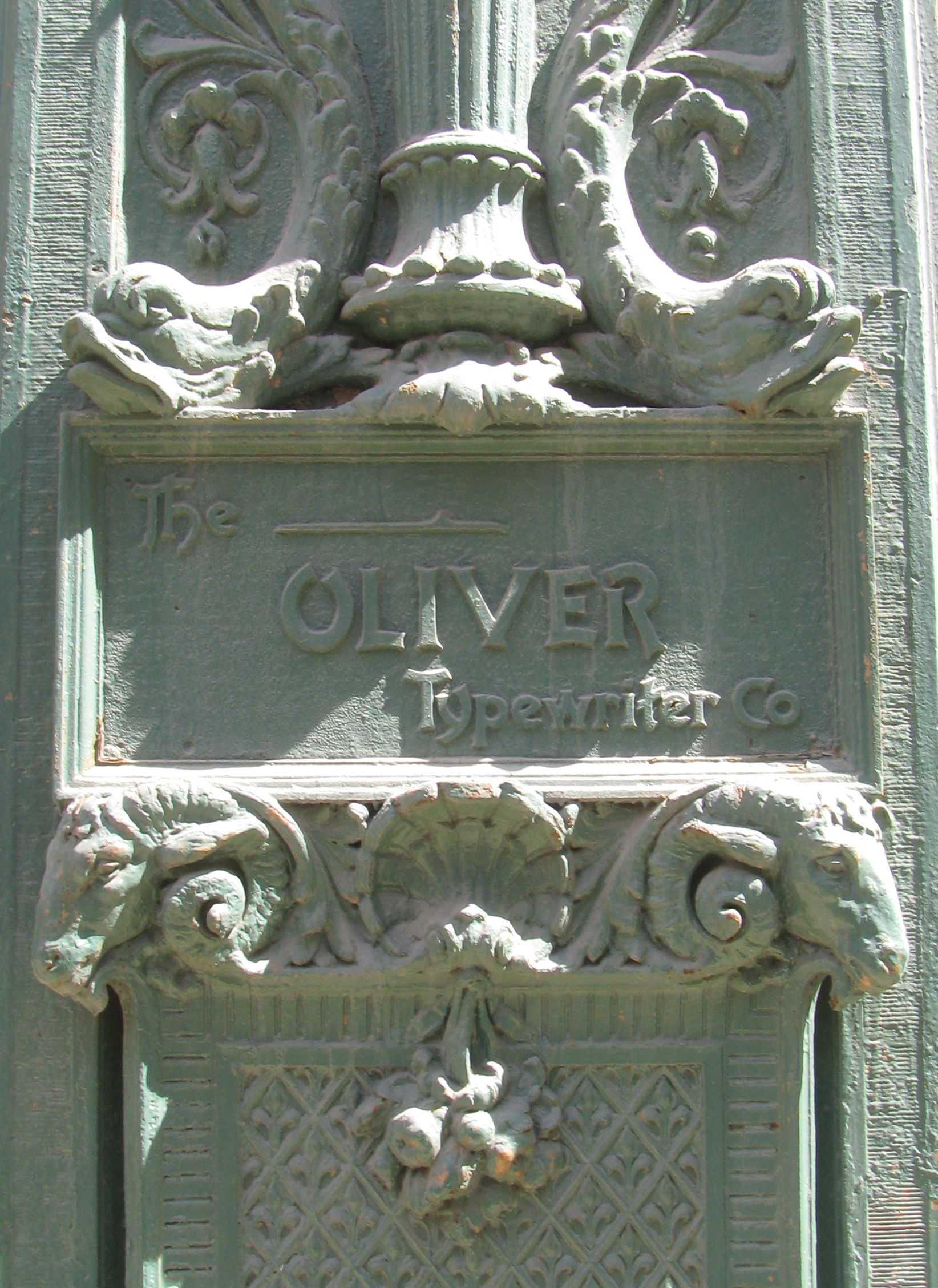 Detail of ornamentation on the Oliver Building in Chicago, Illinois